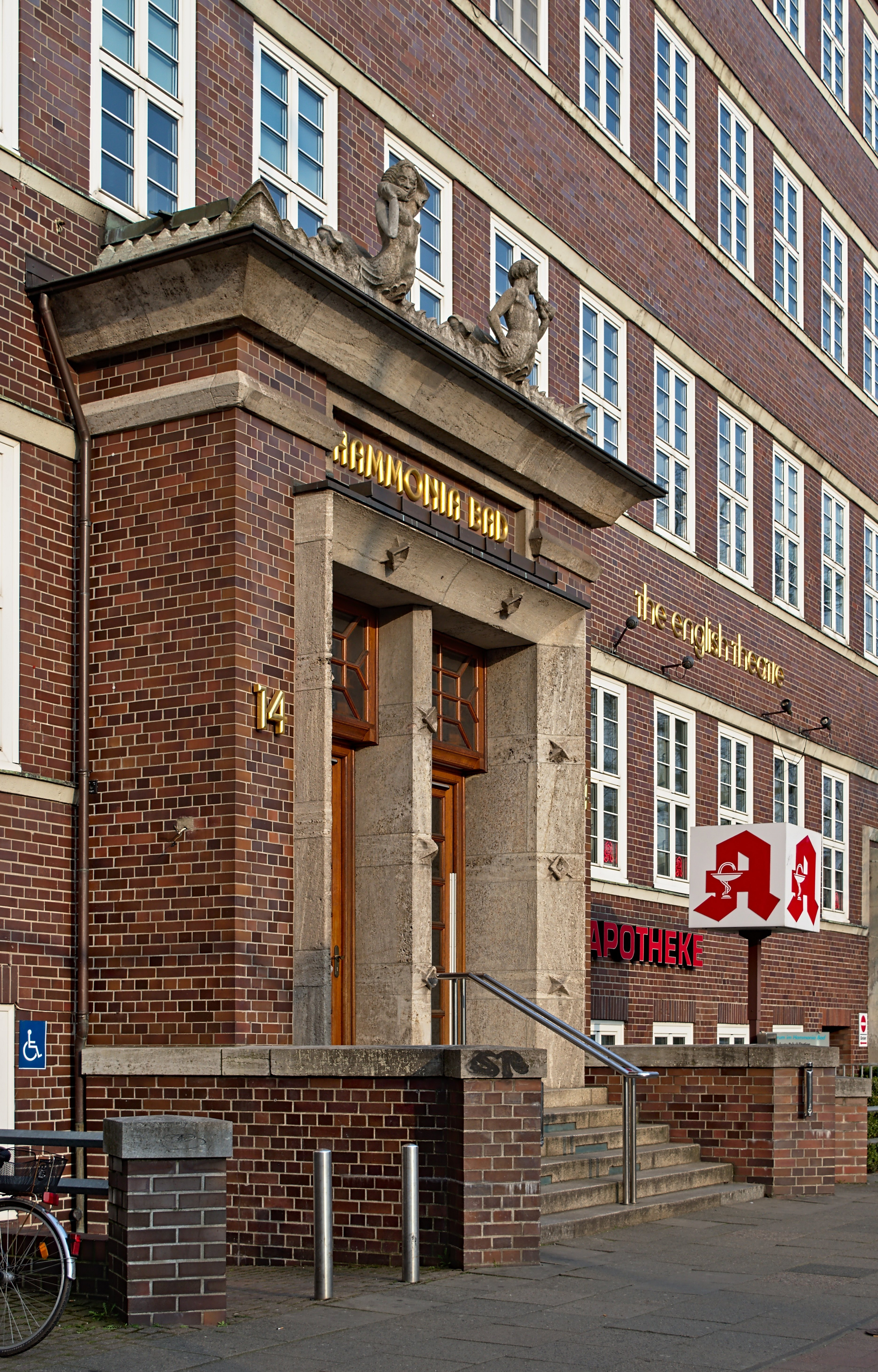 Entrance to the Hammonia-Bad, a former public bath and office building, now hosting numerous doctor's practices, a pharmacy, and the English Theatre of Hamburg, on Lerchenfeld 14, Hamburg.This is a photograph of an architectural monument.